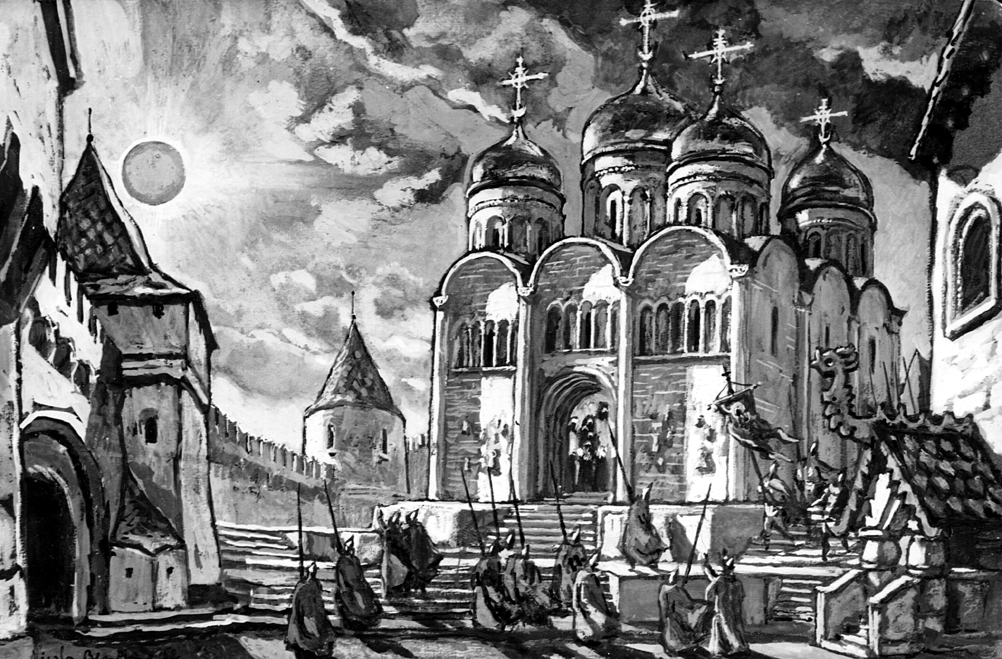 Photograph of set design drawing by Nicola Benois for Chicago Lyric Opera production of Borodin's 'Prince Igor', October 1962.